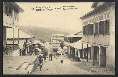 Postcard picture of Matadi's main street from around 1900.